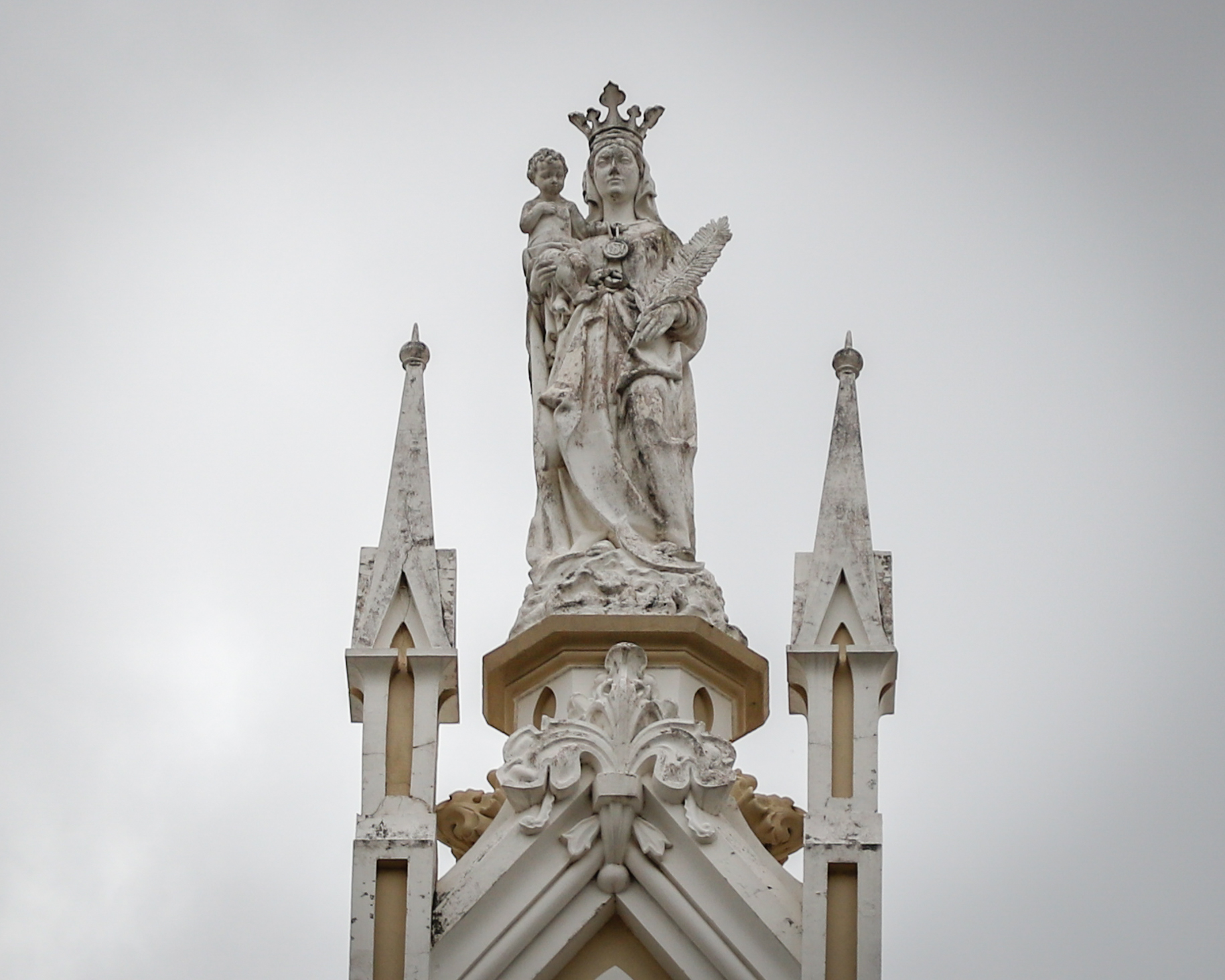 Our Lady of Victory Cathedral, Vitória, Espírito Santo, Brazil.